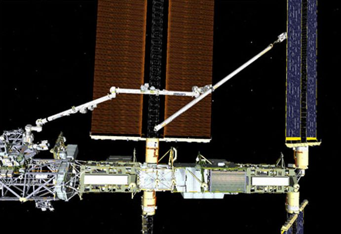 Computer graphic how astronaut Scott Parazynski will repair the P6 solar array